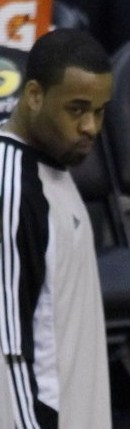 Malik Hairston before a game in 2009